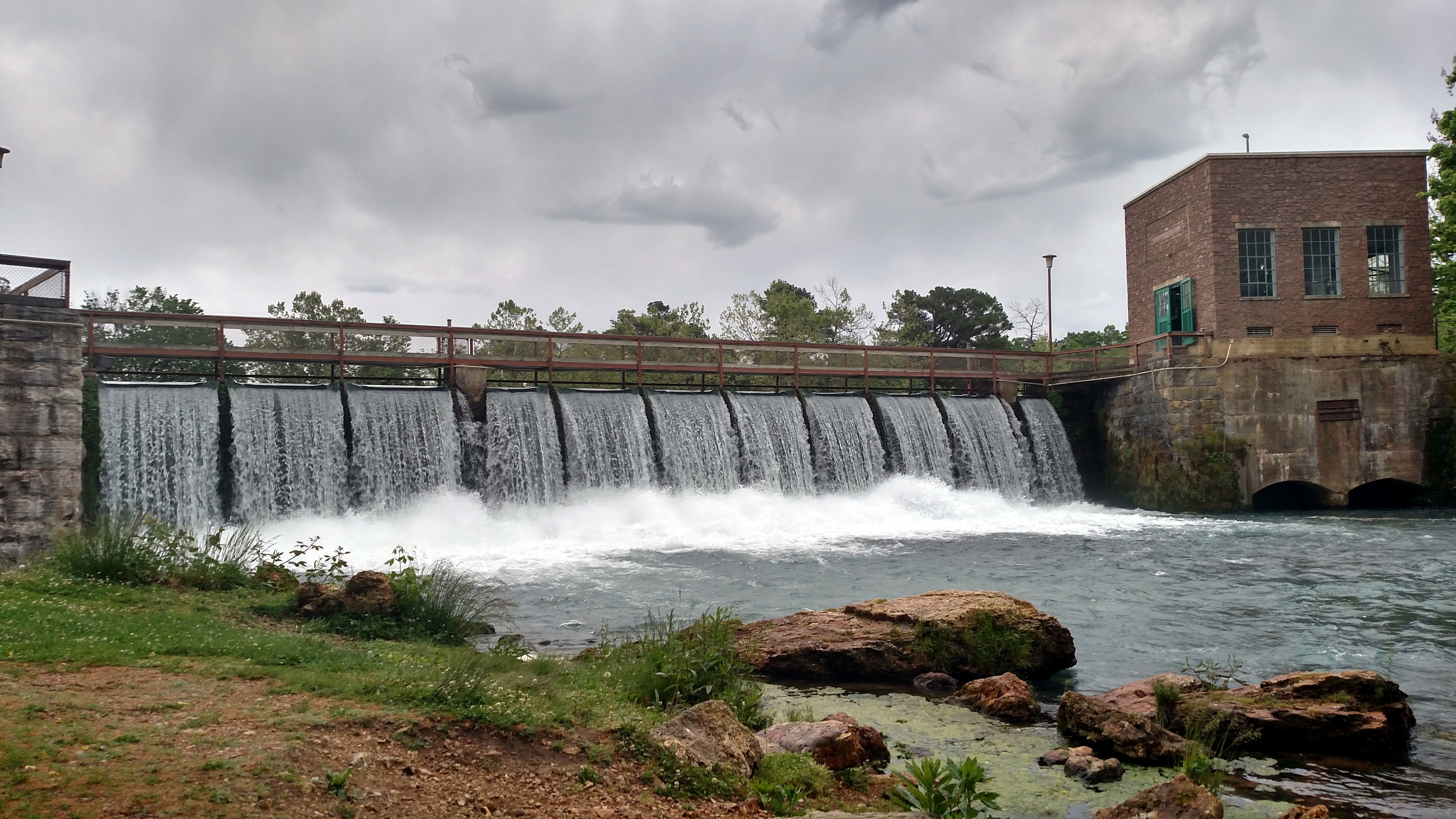 Spillway on Spring River in Mammoth Spring State Park in Mammoth Spring, Arkansas